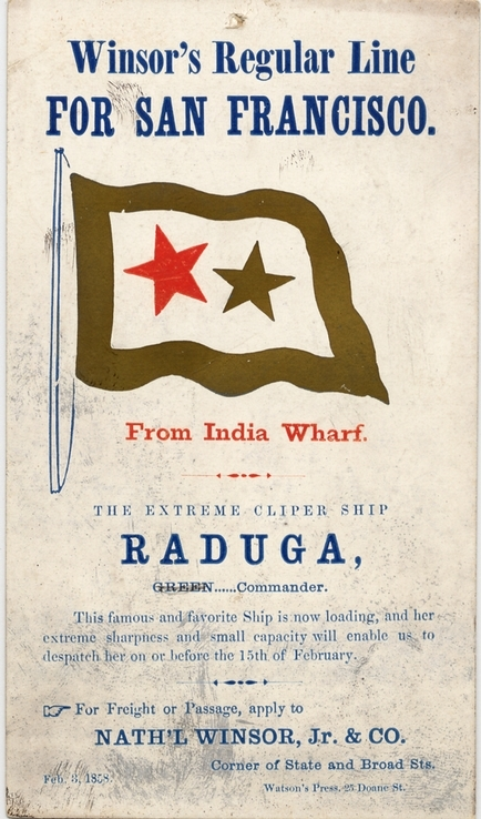 Sailing card for the extreme clipper ship RADUGA. Winsor's Regular Line for San Francisco. Nathaniel Winsor, Jr. & Co. Green, Commander.